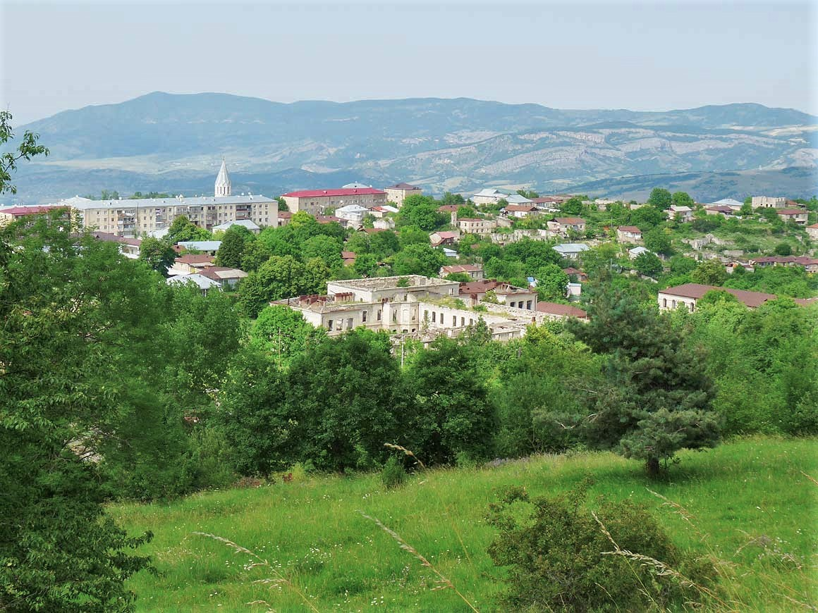 Shushi, NKR